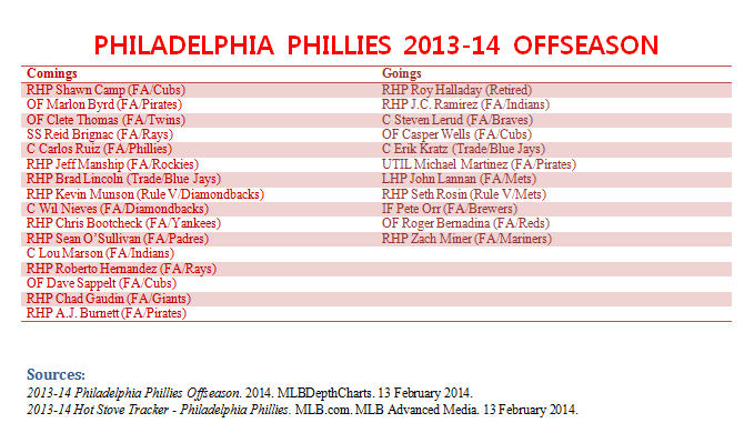 A visual aid depicting the Phillies' 2013-14 offseason transactions for use in their season article.